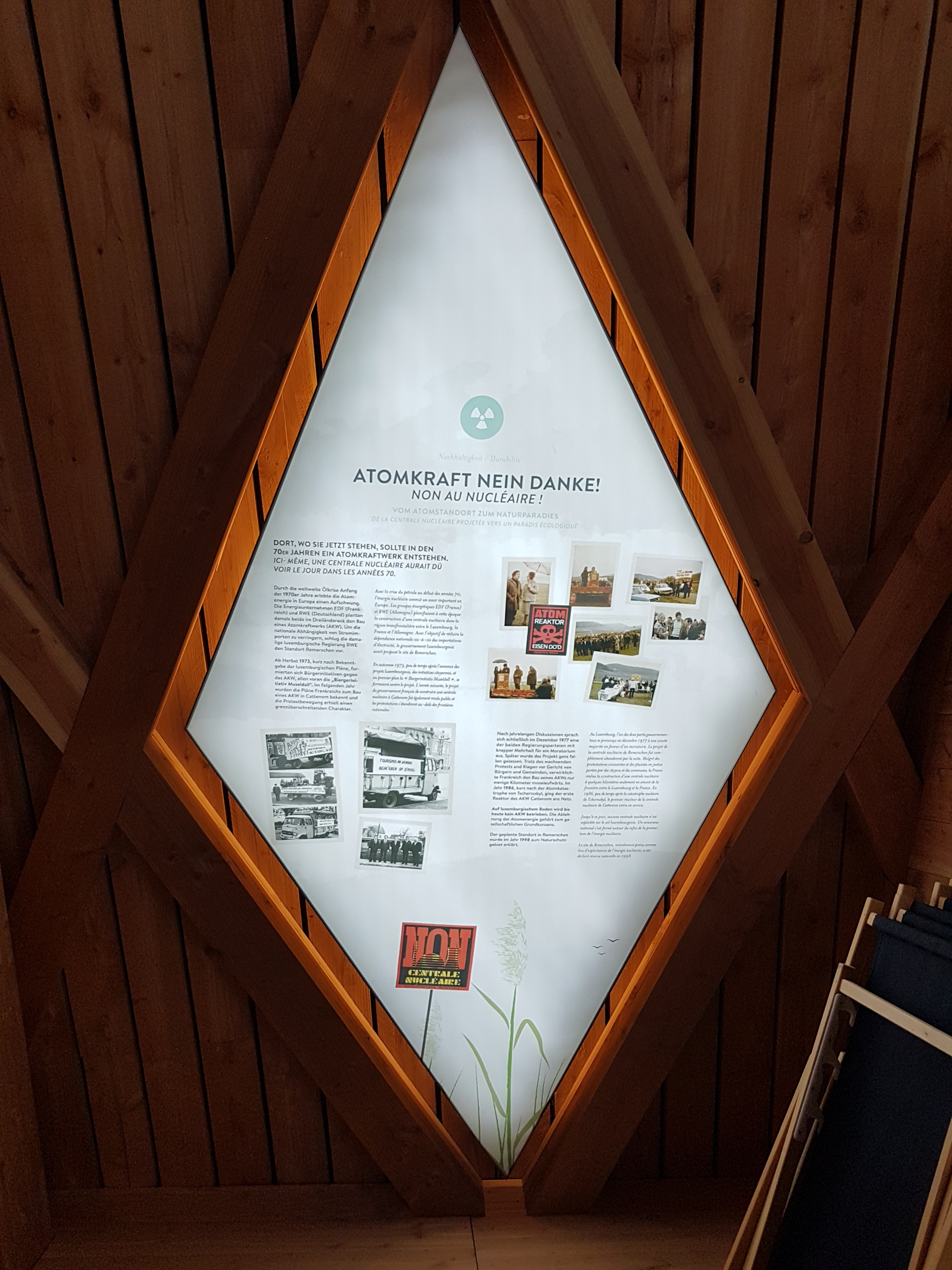 Nature Conservation Center / Visitor Center "Biodiversum - Camille Gira" (formerly "Nature et Forêt Biodiversum") in Remerschen (lux .: Rëmerschen or Riemëschen), municipality of Schengen in the Grand Duchy of Luxembourg. Architect: François Valentiny.